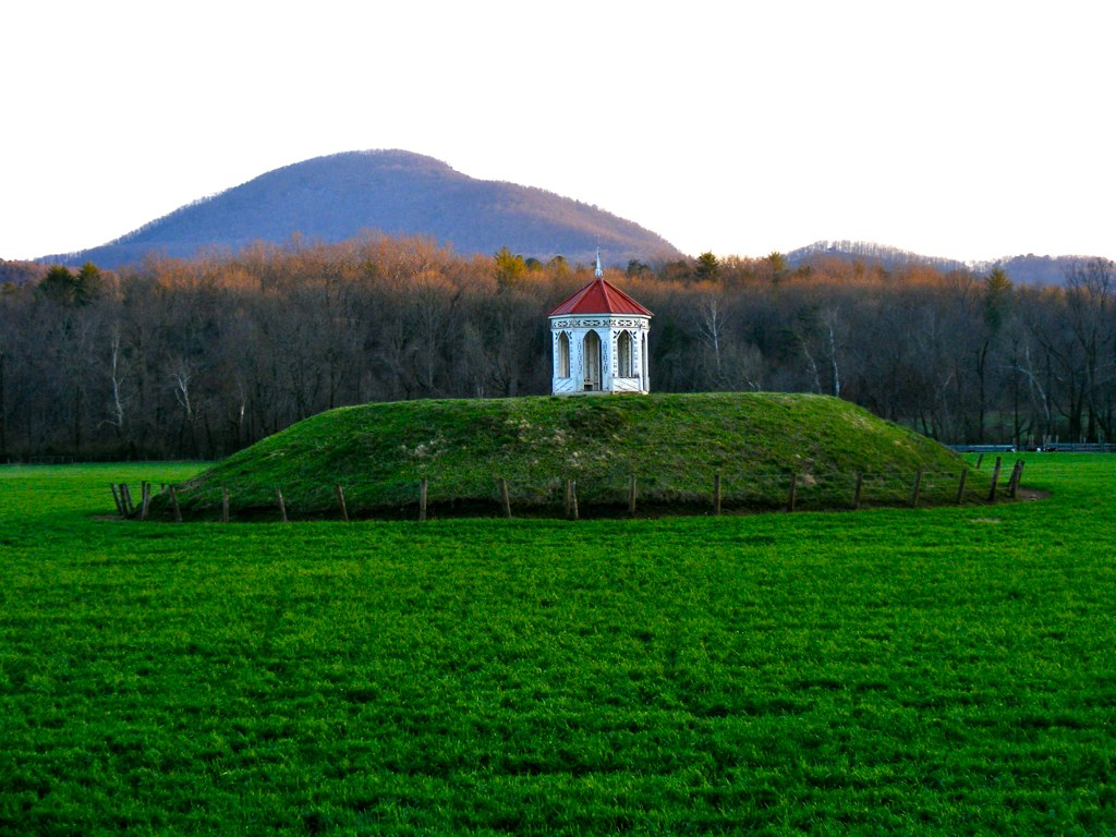 Nacoochee Indian Mound